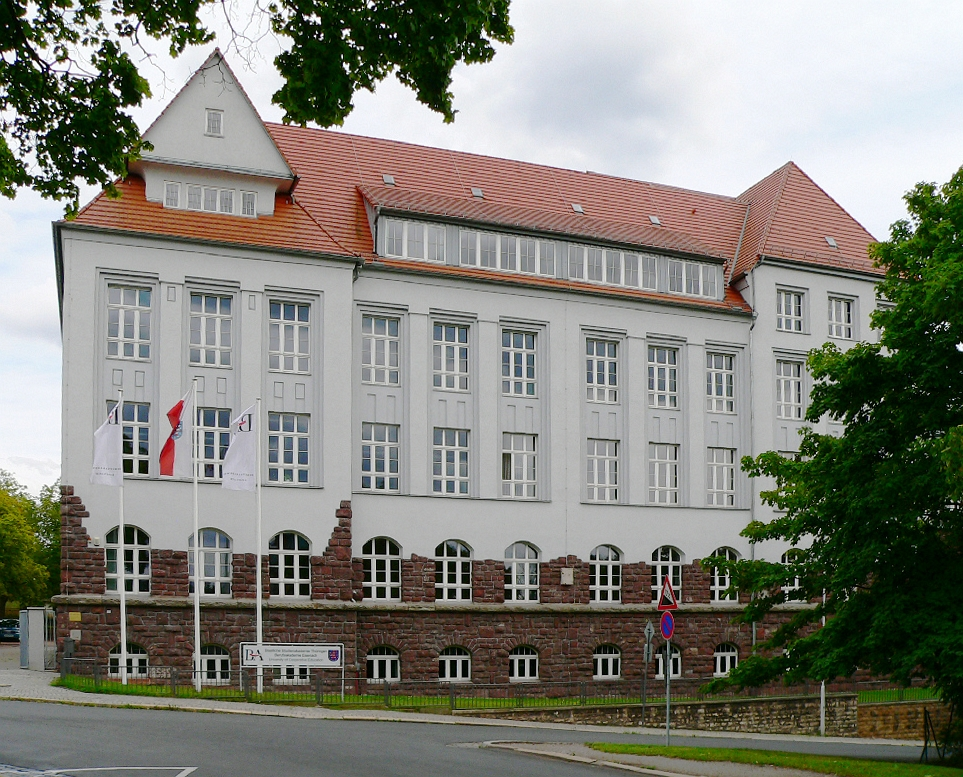 The university of cooperative education in Eisenach